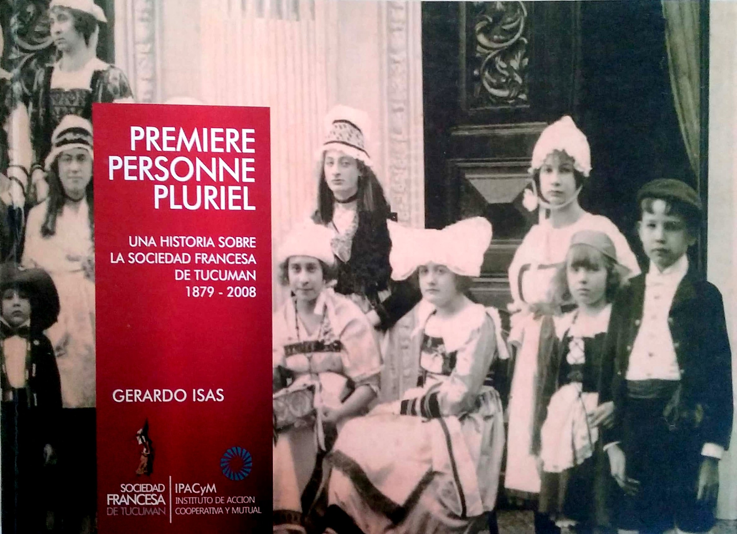 Book Cover, from the book, Premiere Personne Pluriel; Una historia sobre la Sociedad Francesa de Tucumán, 1879-2008